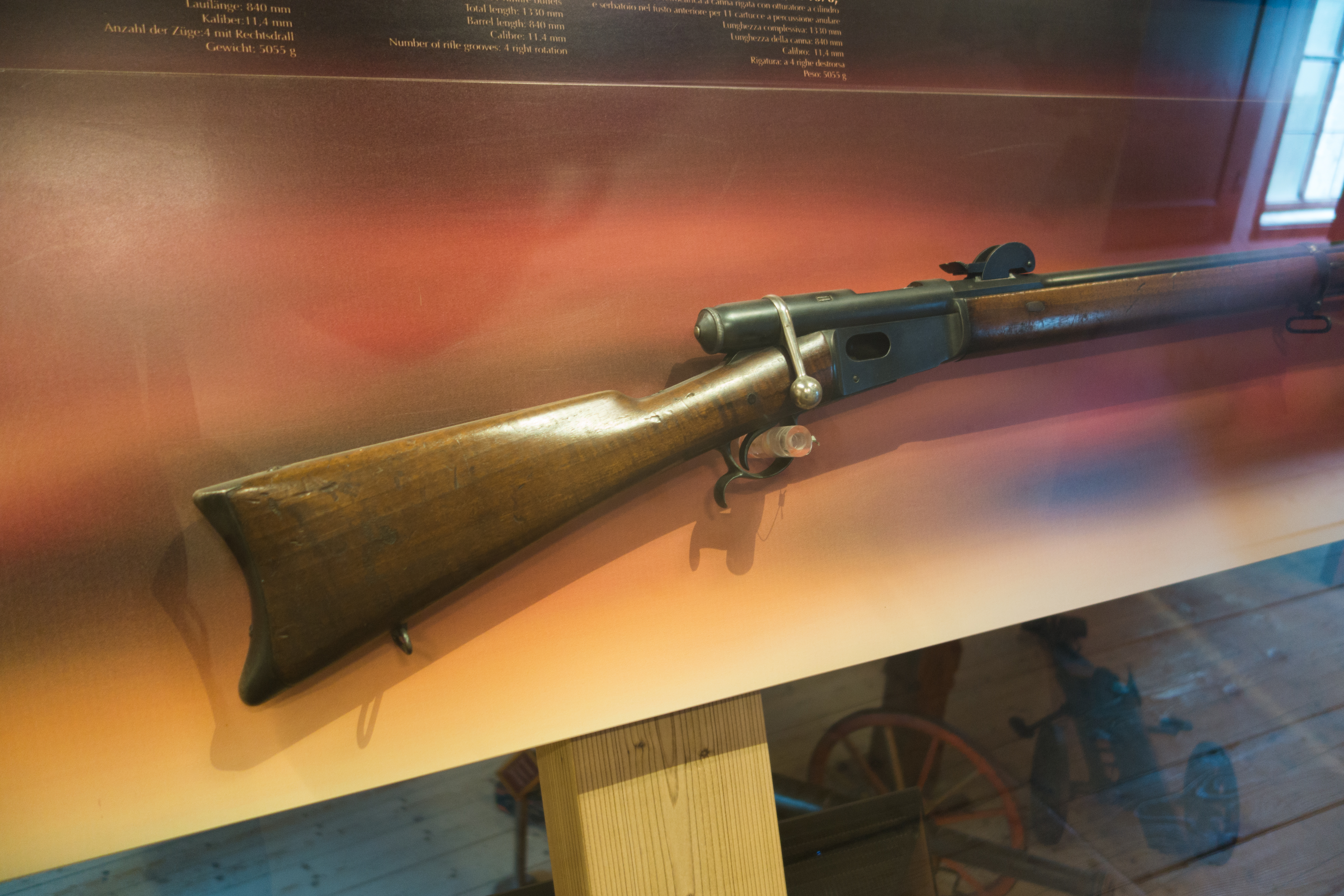 Austria